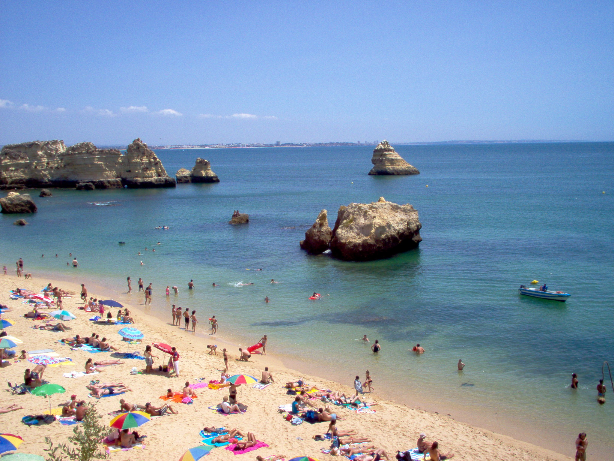 Picture from the beach Dona Ana, near the city of Lagos, in Portugal.